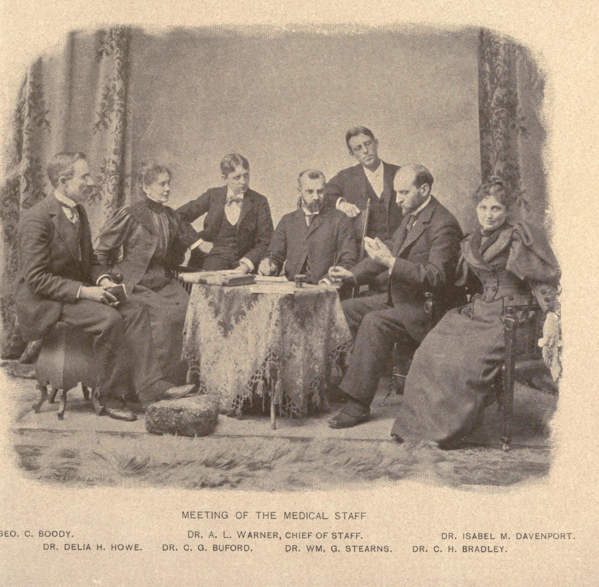 Meeting of the medical staff, Kankakee Mental Hospital, circa 1910